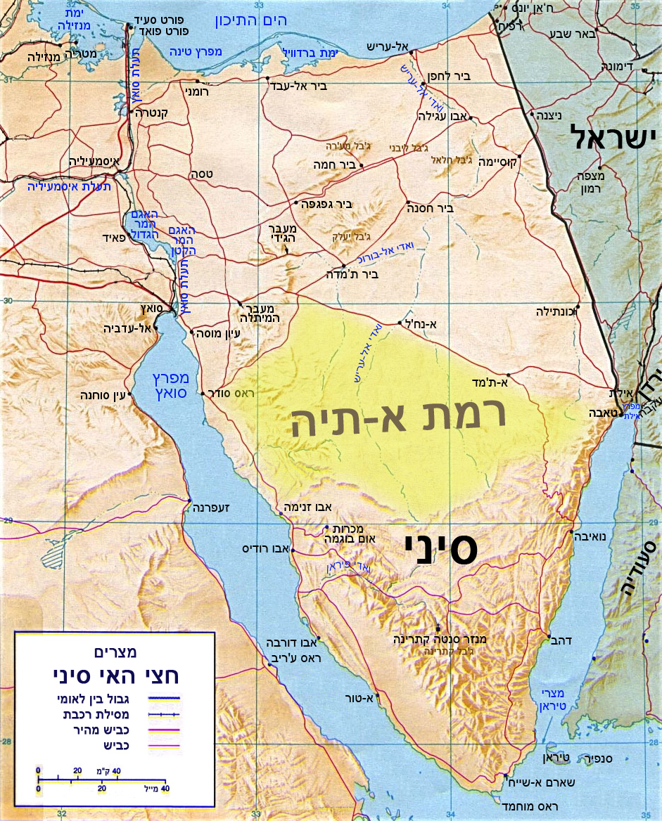 Shaded relief map of the Sinai Peninsula, 1992, produced by the U.S. Central Intelligence Agency.